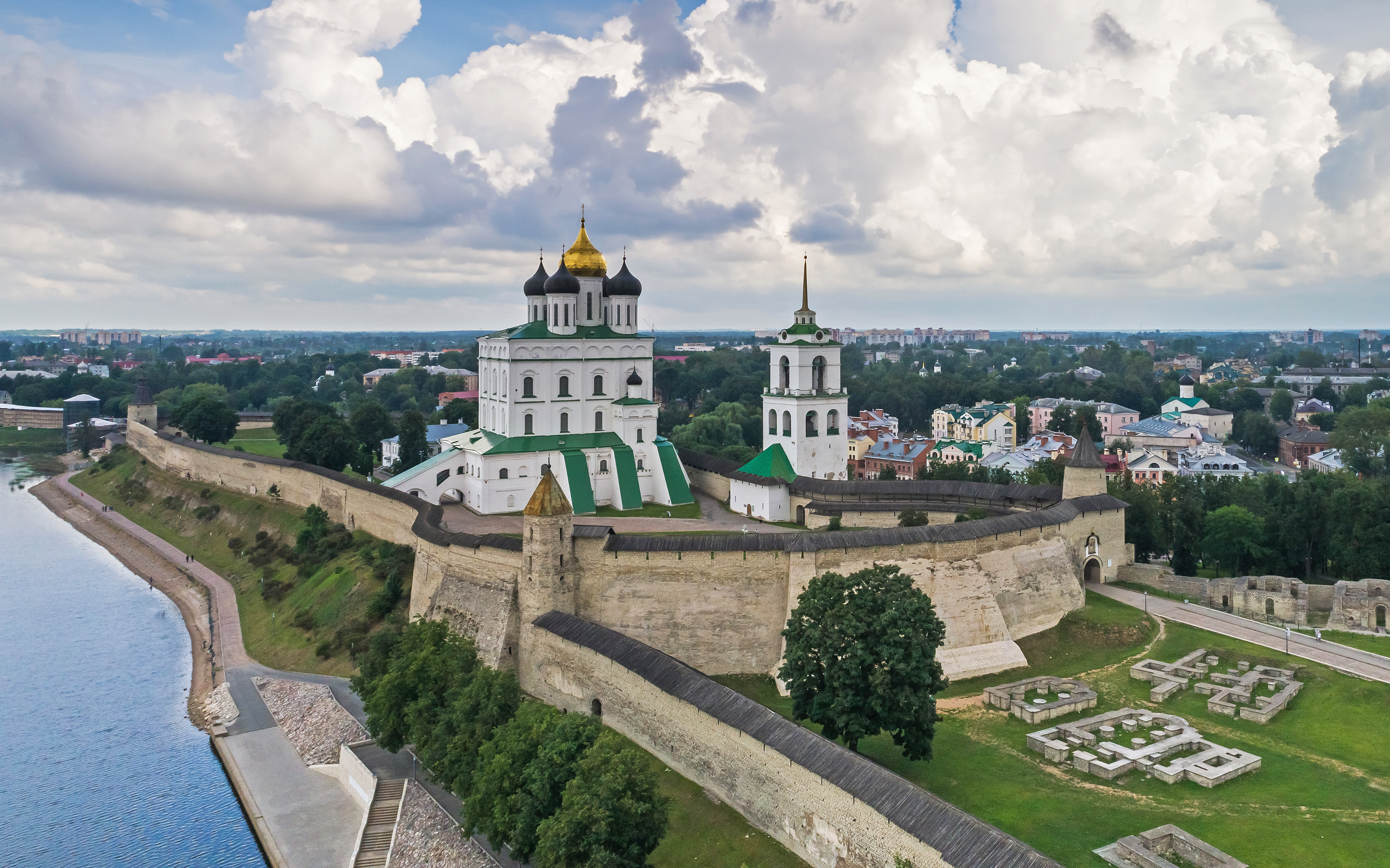 Aerial view of the Kremlin in Pskov, Russia